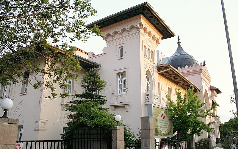 Ankara Palace - (Ankara Vakıf Oteli) - of Mimar Kemaleddin in Ankara - Turkey.